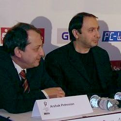 Arshak Petrosian and Artashes Minasian, press conference on the Chess Olympiad 2008 at Dresden